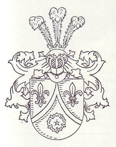 Coat of Arms of the german family von Herff